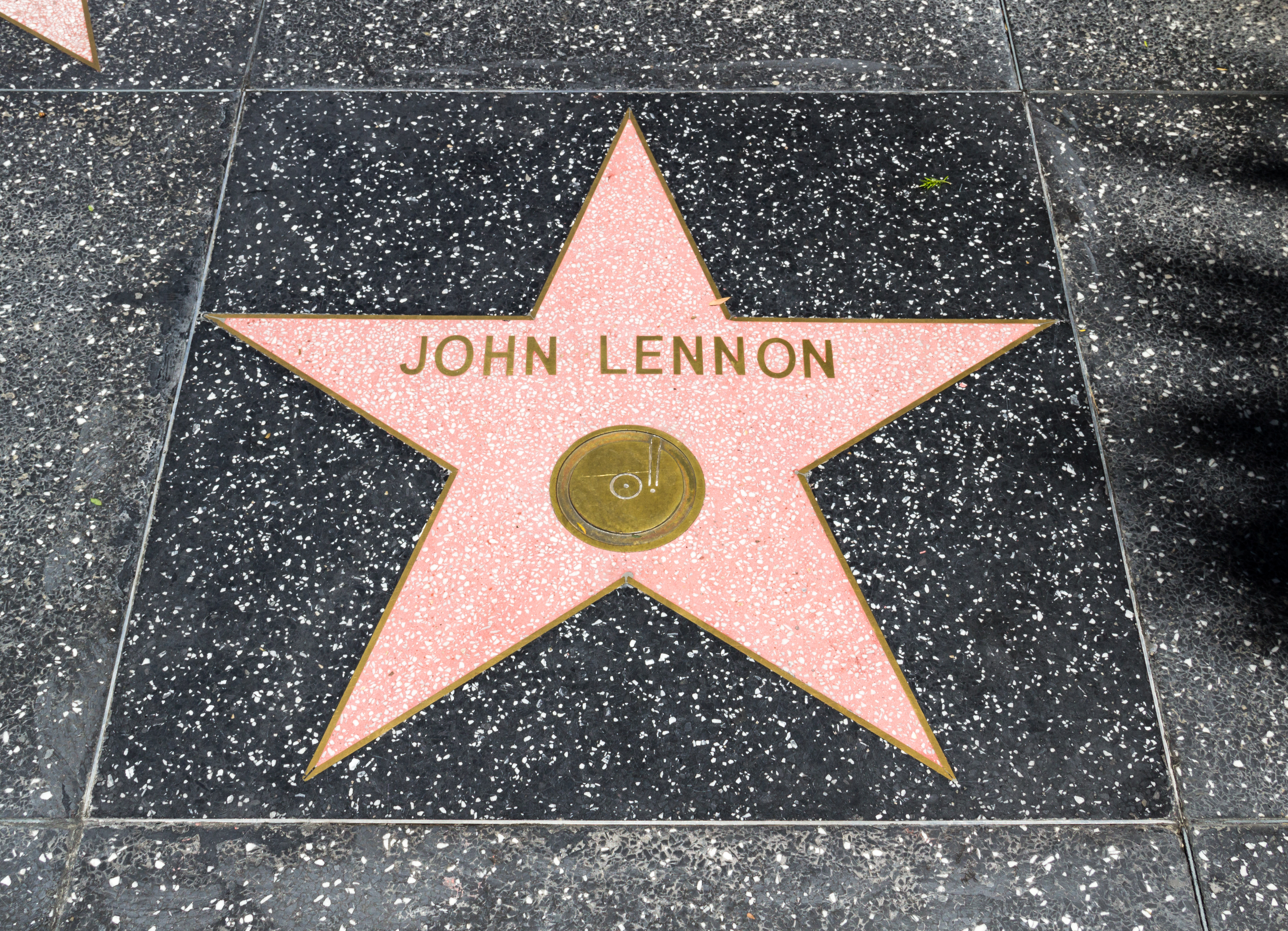 Star “John Lennon” at the Hollywood Walk of Fame, Los Angeles, California